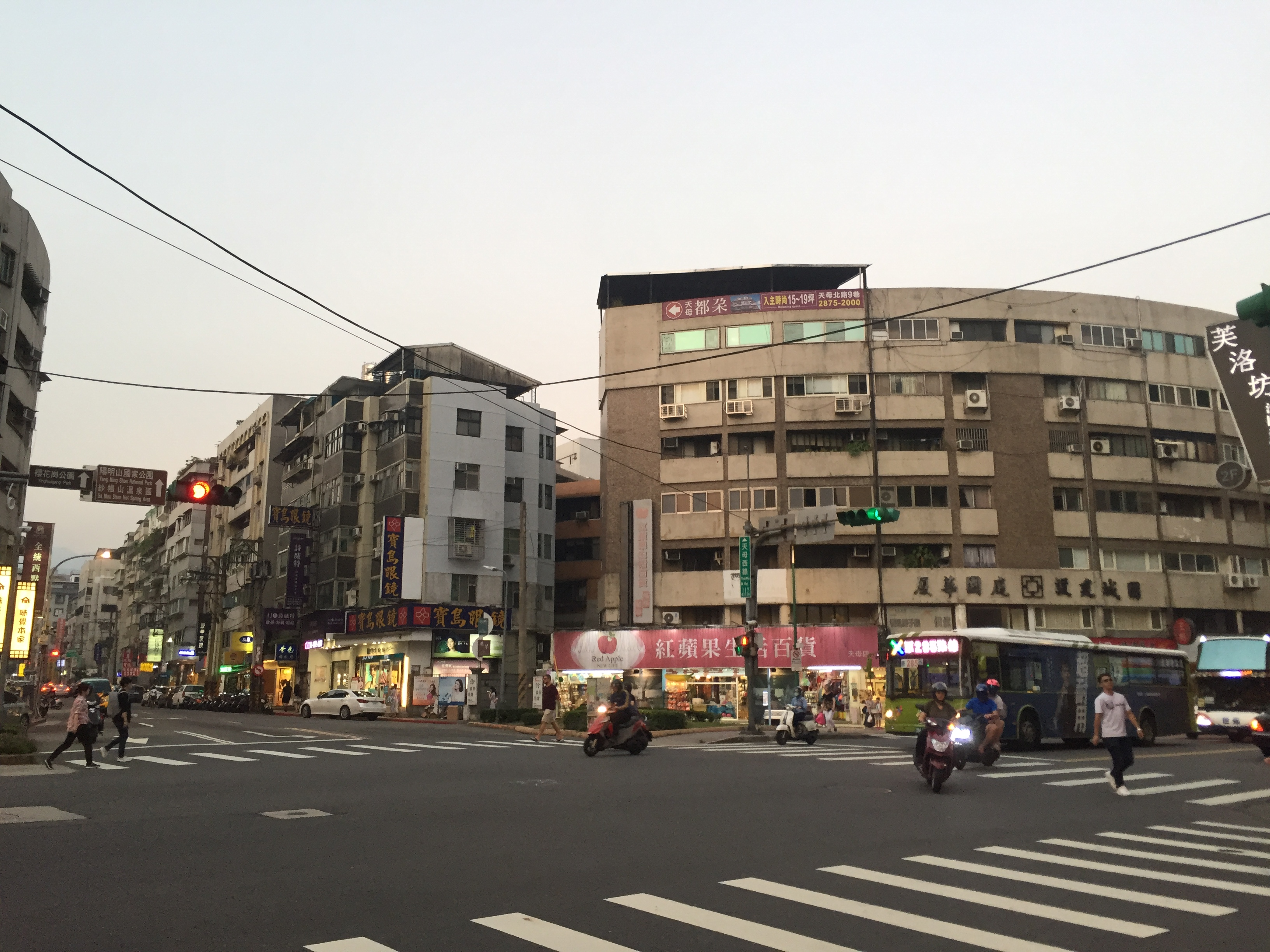 Intersection of Tianmu west road and Tianmu north road